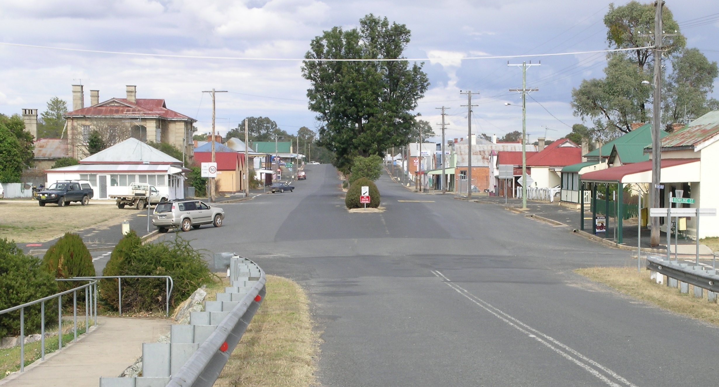 The main street of Bundarra, NSW